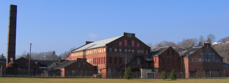 My photo taken prior to purchase by American Philatelic Society